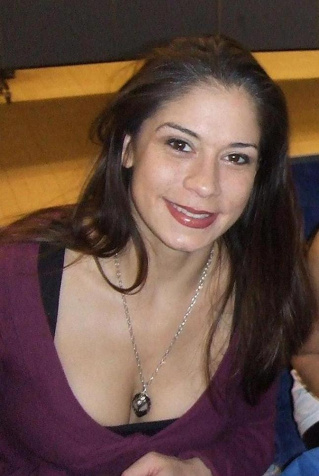 Sarah Stock at the Bournemouth International Centre in Bournemouth, England, before a TNA Wrestling event.